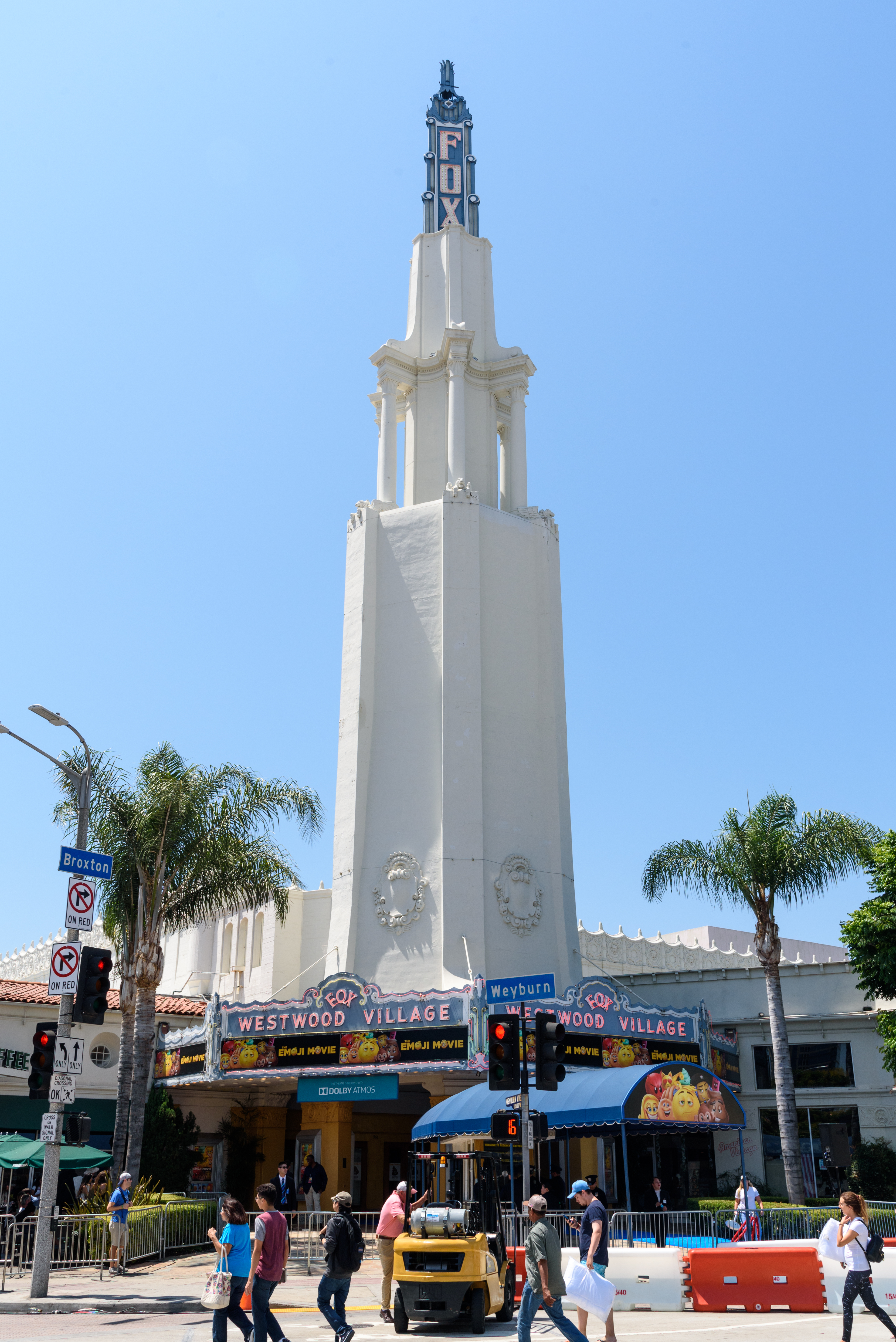 The Emoji Movie premiere at the Fox Theatre, Westwood Village